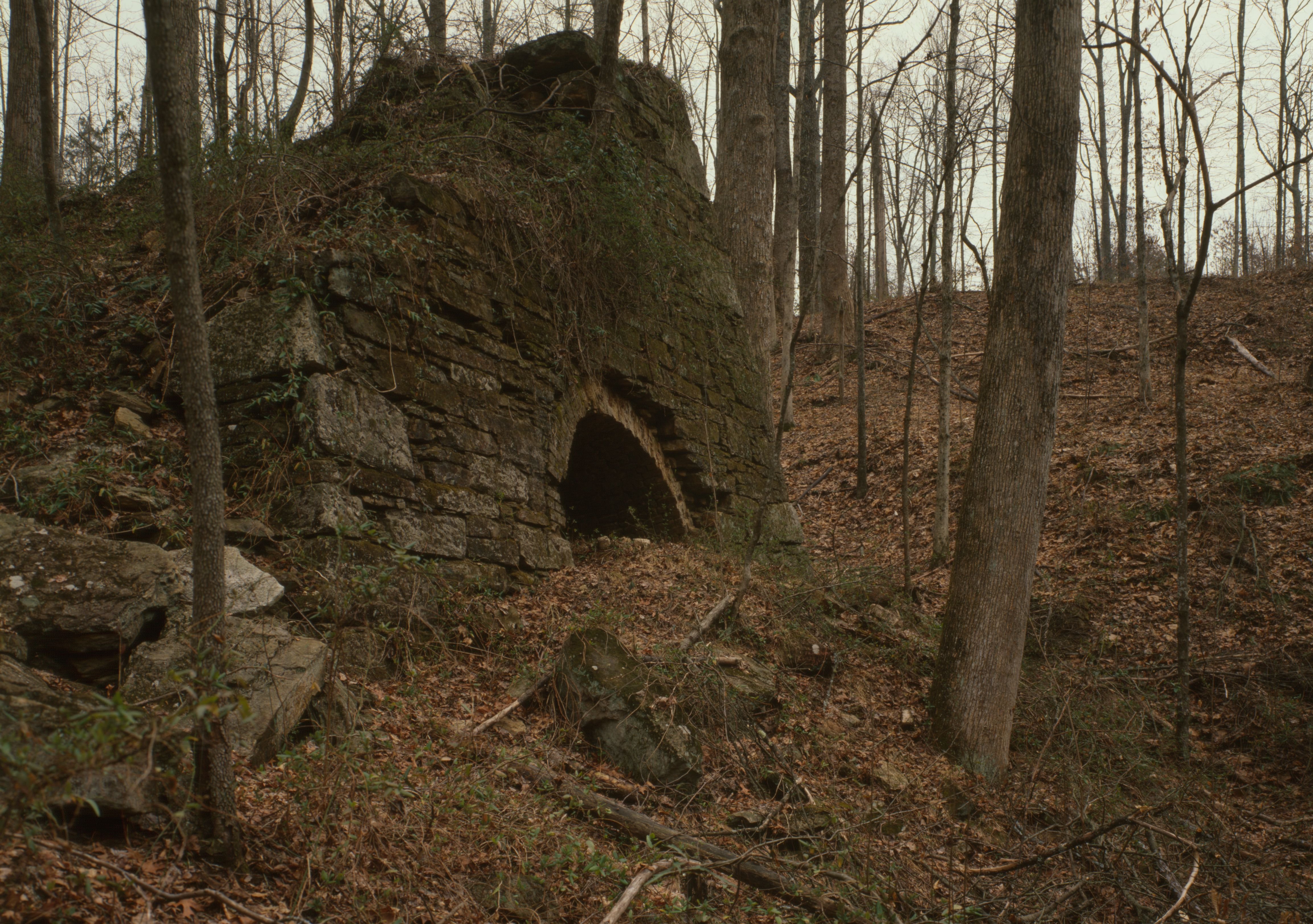 Cowpens Iron Furnace, 1000 feet East of County Road 34 & Cherokee Creek Bridge, Gaffney (Cherokee County, South Carolina).